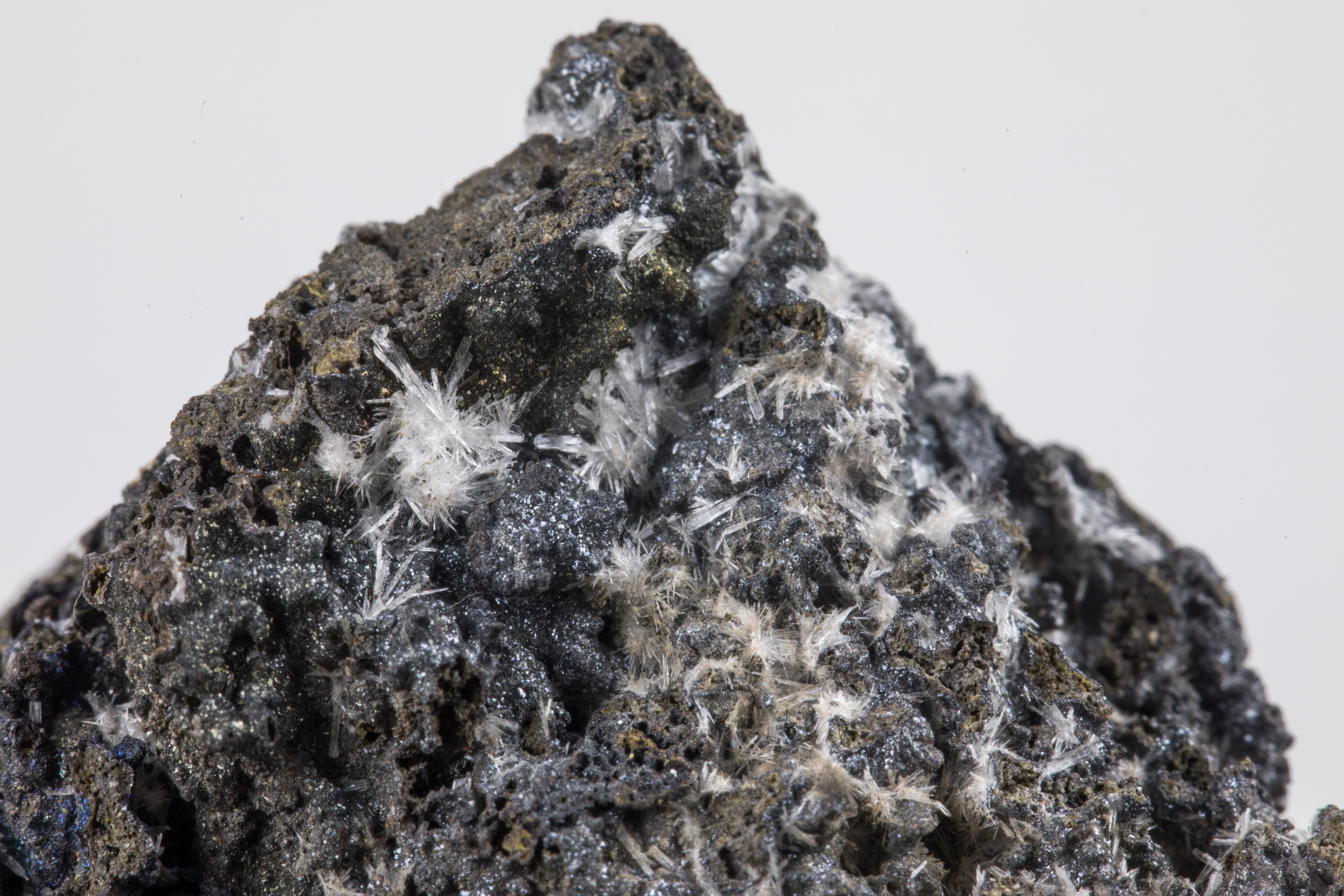 Oxyplumboroméite (formerly known as Bindheimite) Locality: slag dump Letmathe, Iserlohn, North Rhine-Westphalia, Germany Description: Small, greyish white to brownish, fibrous crystal balls on matrix from the collection of Ra'ike